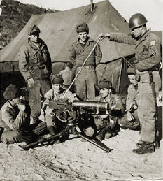 Sgt. 1st Class Gary G. Beylickjian provides instruction on the water-cooled machine gun to new members of the Heavy Machinegun Platoon, H Co., 7th Inf. Regt., 3rd Inf. Div., following the signing of the Korean armistice in 1953.)